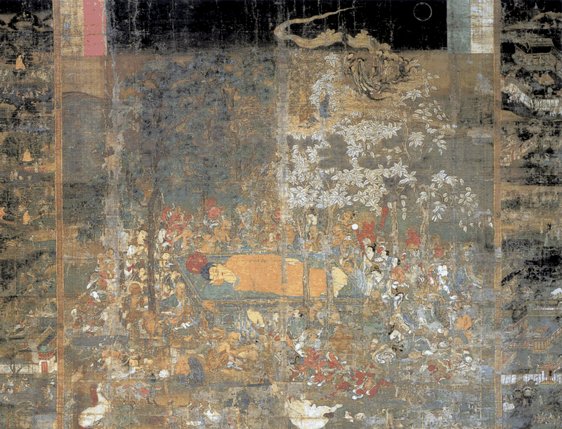 Eight-phase Nirvana, Tsurugi Jinja, Echizen, Fukui, Japan